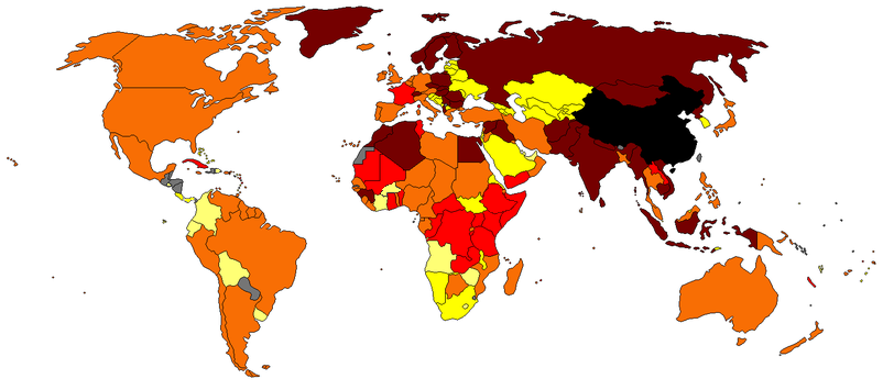 Countries of the world indicating decade diplomatic relations commenced with the People's Republic of China: 1949/1950s (dark red) 1960s (red) 1970s (orange) 1980s (beige) 1990s/2000s (yellow) Countries not recognized by or not recognizing the PRC are in grey.